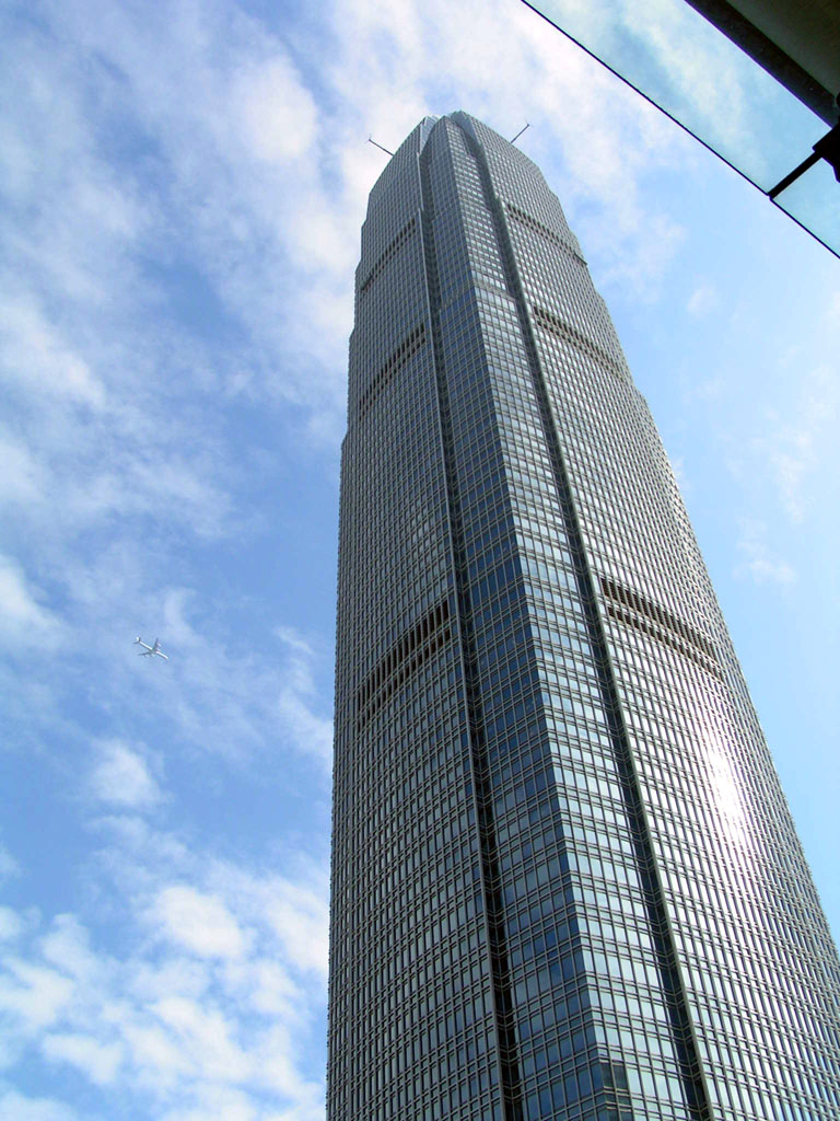 Two International Finance Center and a plane taking off from Chek Lap Kok airport